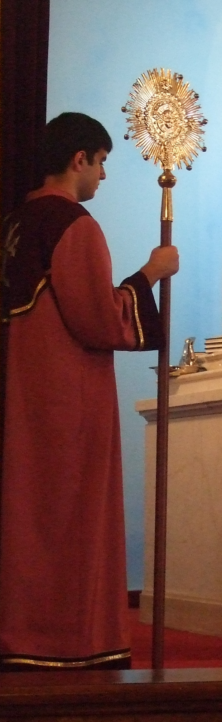 Ripida or flabellum